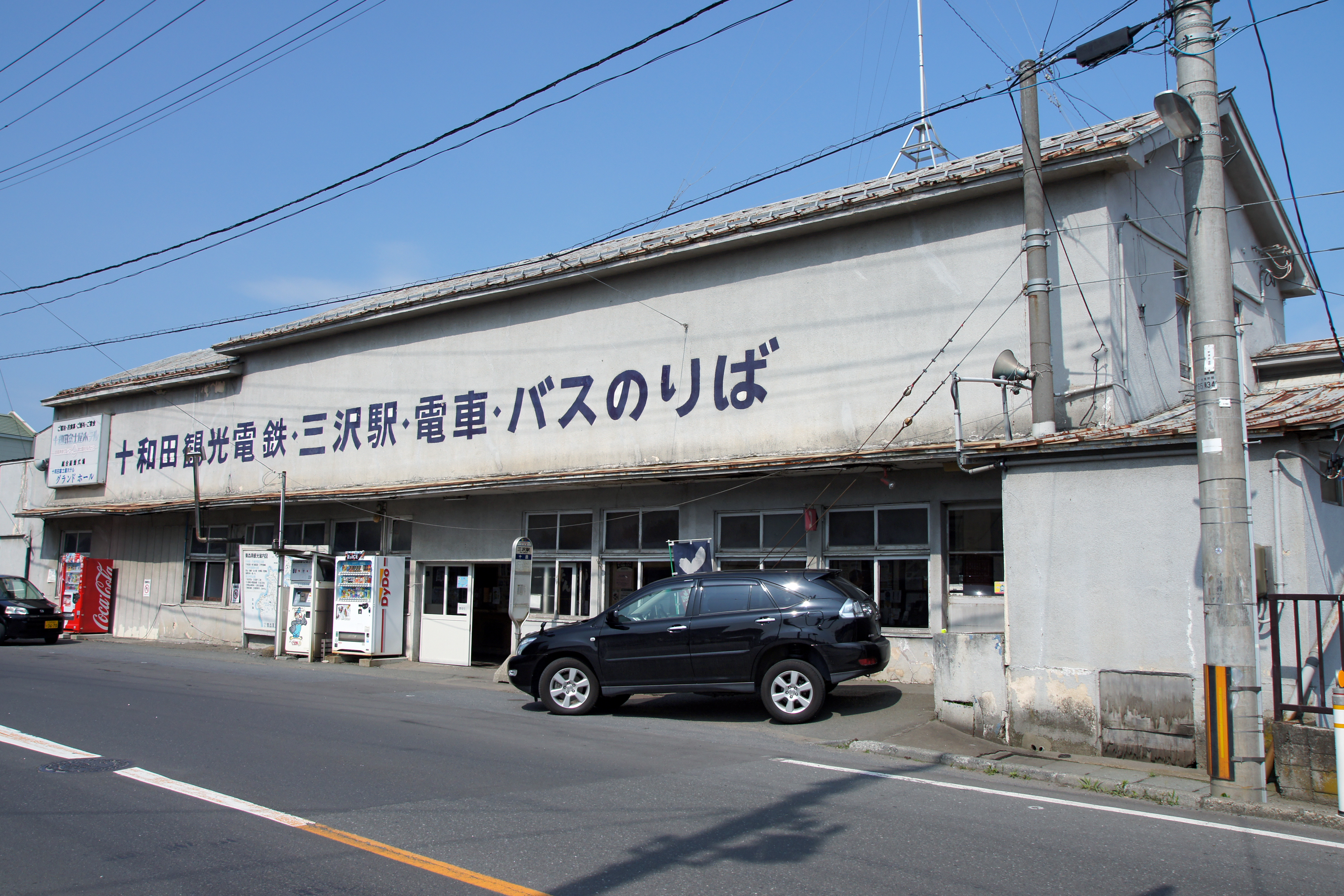 Towada-Kanko Electric Railway Misawa Station in Misawa, Aomori prefecture, Japan